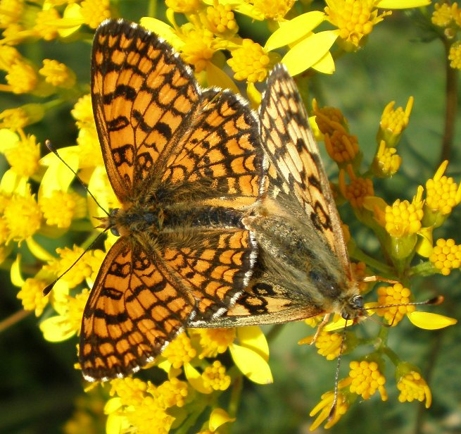 Near El Tarter, Canillo, Andorra.